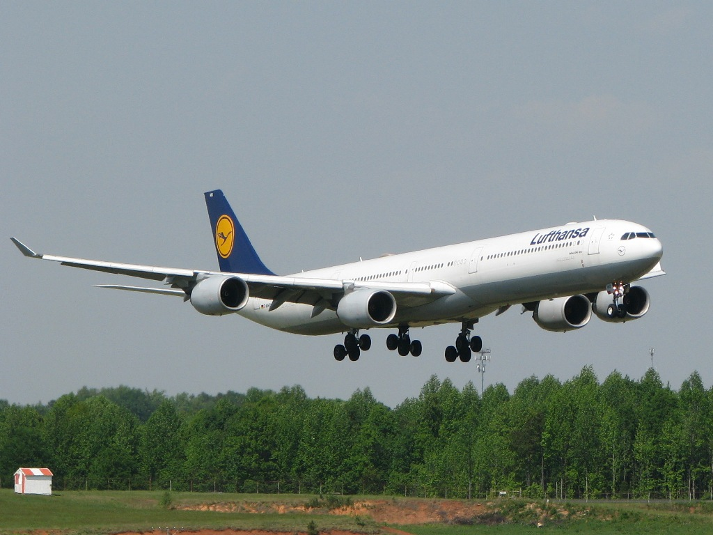 Lufthansa flight from Munich, Germany landing on runway 18C in Charlotte, NC USA (A340-600)